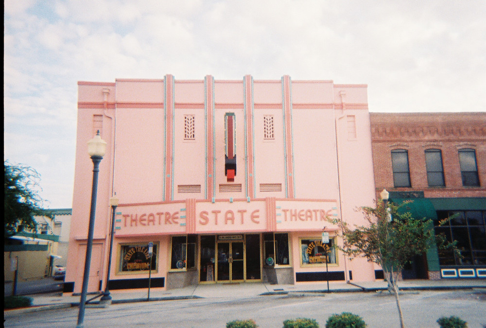 Plant City, Florida: Downtown Plant City Commercial District: Downtown Plant City Commercial District: An Art Deco style theatre in the district